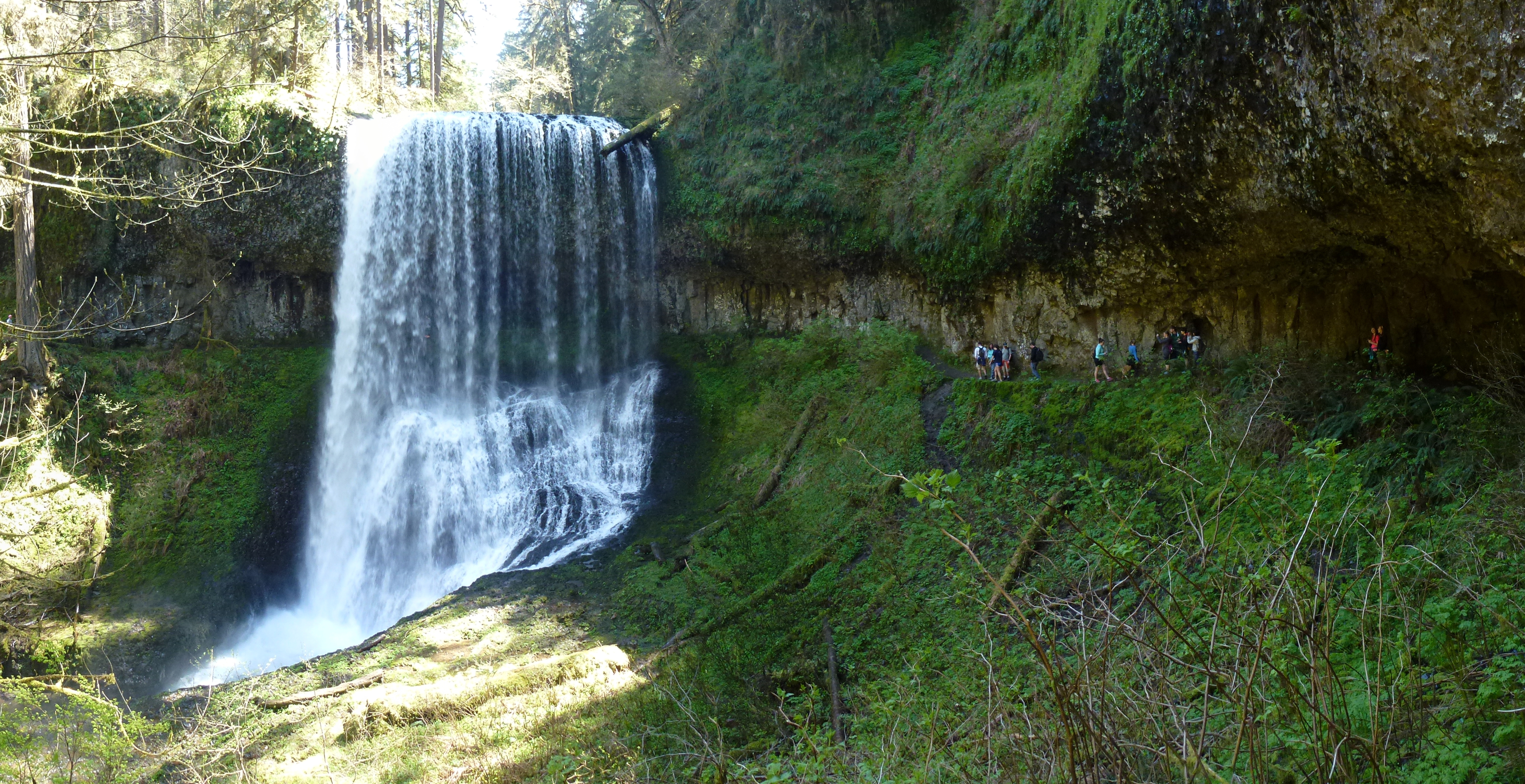 The 106-foot (32 m) Middle North Falls in Silver Falls State Park.